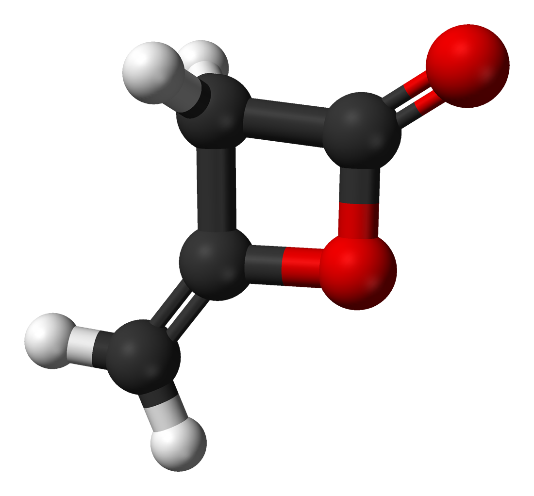 Ball-and-stick model of the diketene molecule, C4H4O2. X-ray crystallographic data from M. I. Kay and L. Katz (December 1958). "A refinement of the crystal structure of ketene dimer". Acta Cryst. 11 (12): 897-898.